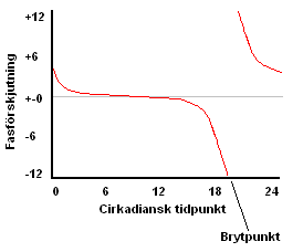 Generic type 0 (strong) circadian phase response curve